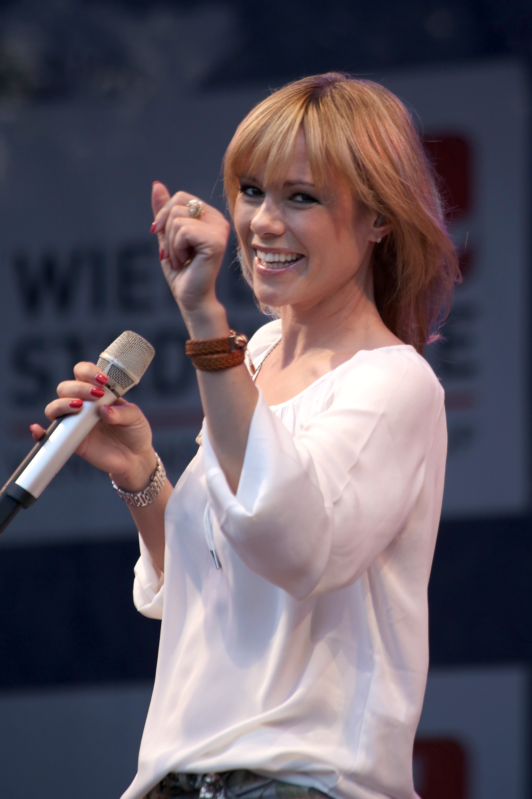 Francine Jordi at Donauinselfest 2014 in Vienna, Austria